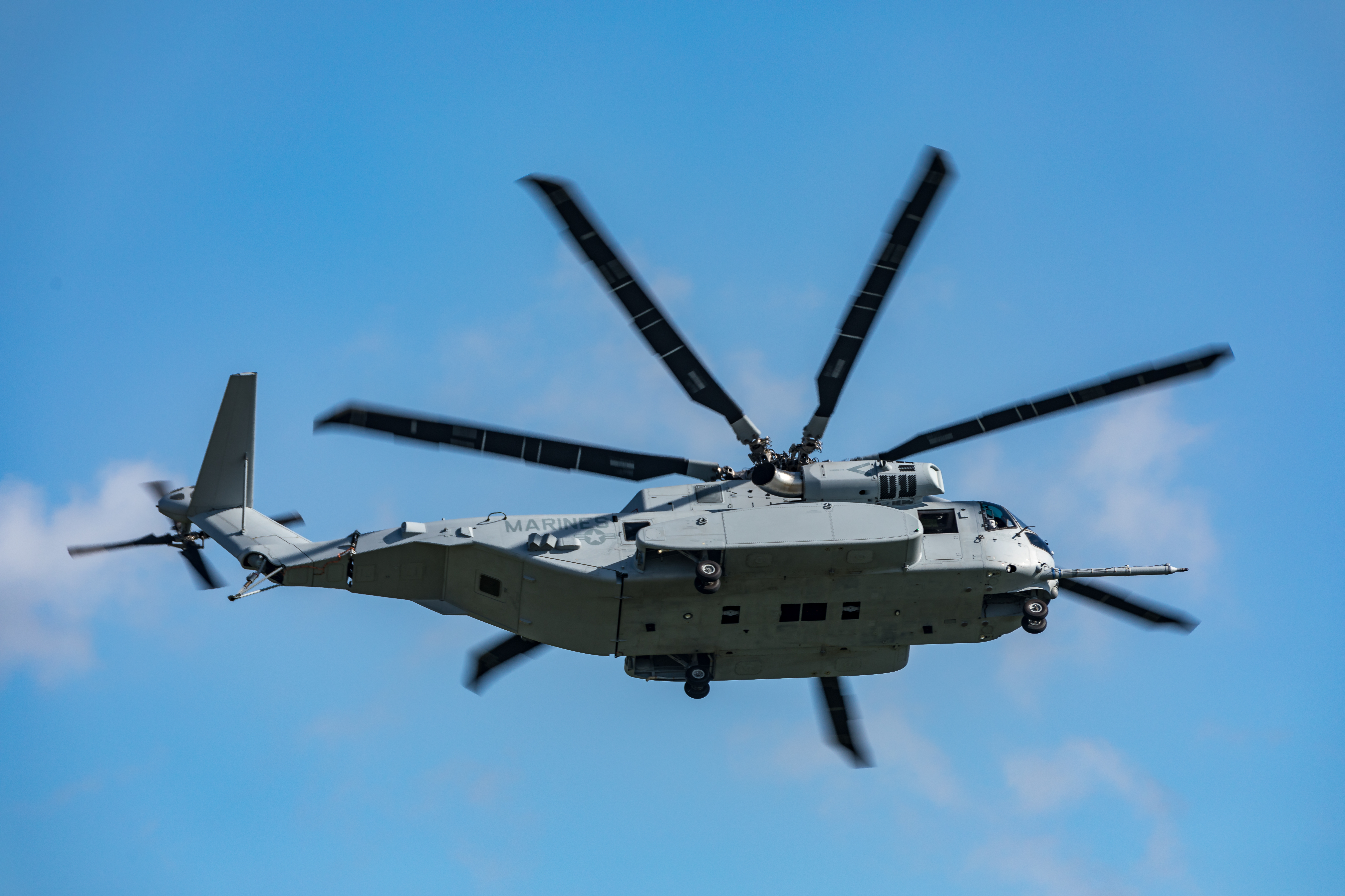 Sikorsky CH-53K King Stallion, ILA 2018